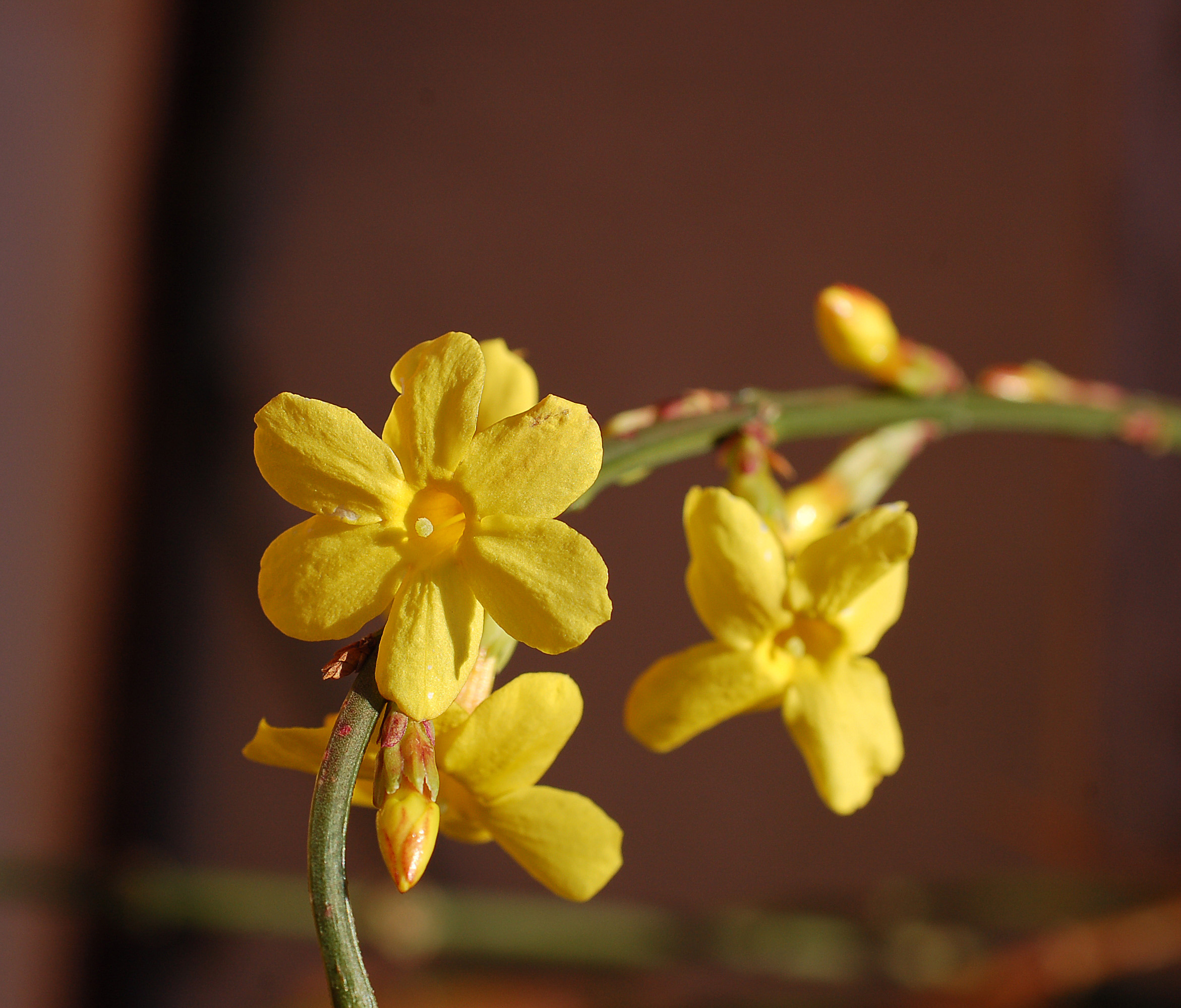 Winter Jasmine - Flower